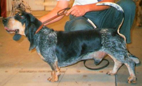 EuW-06 and Fin Ch Blue Gascony Basset male.